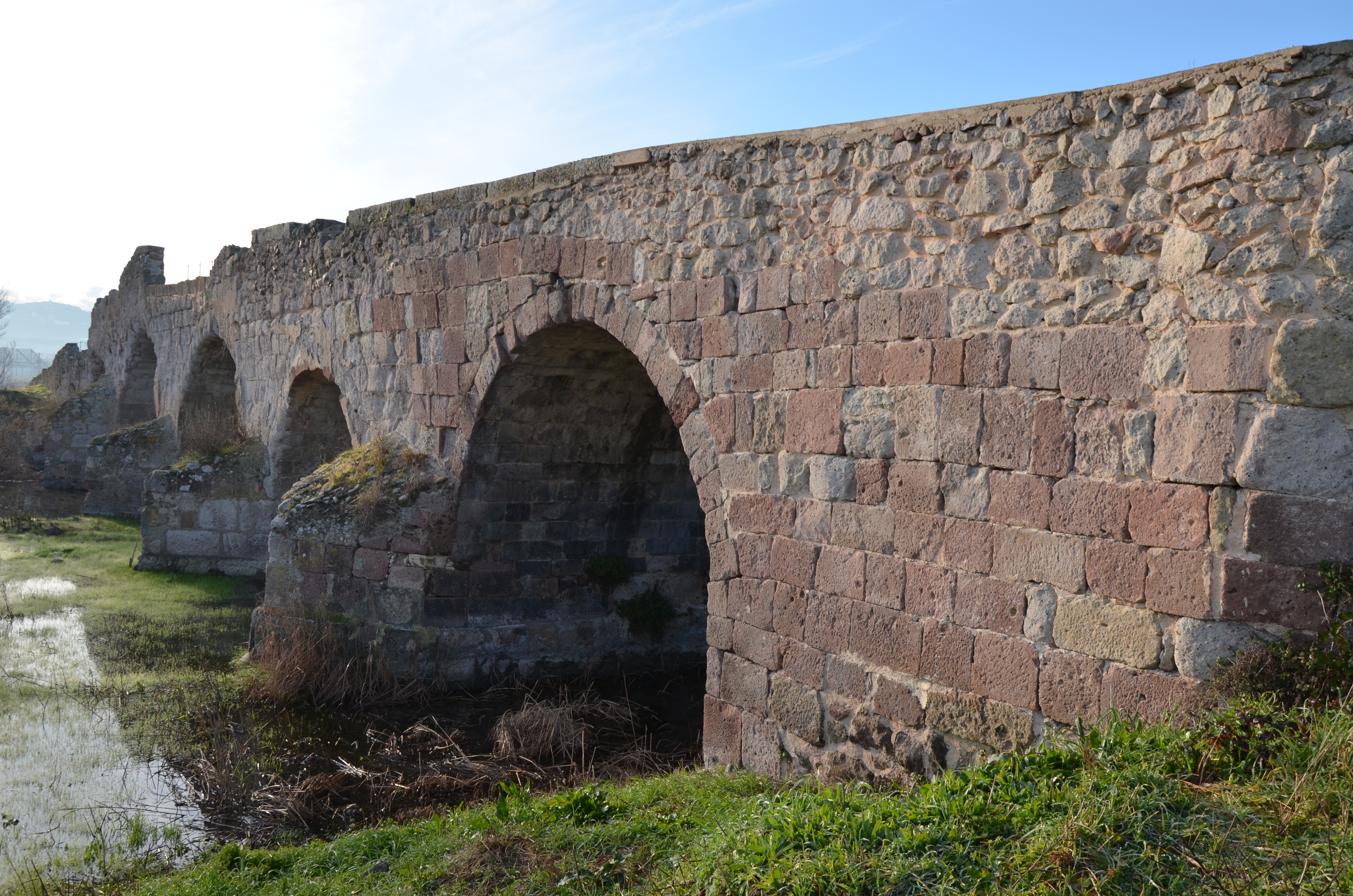 It is the second largest Roman bridge in Sardinia and is still sporting half of its original 24 arches.